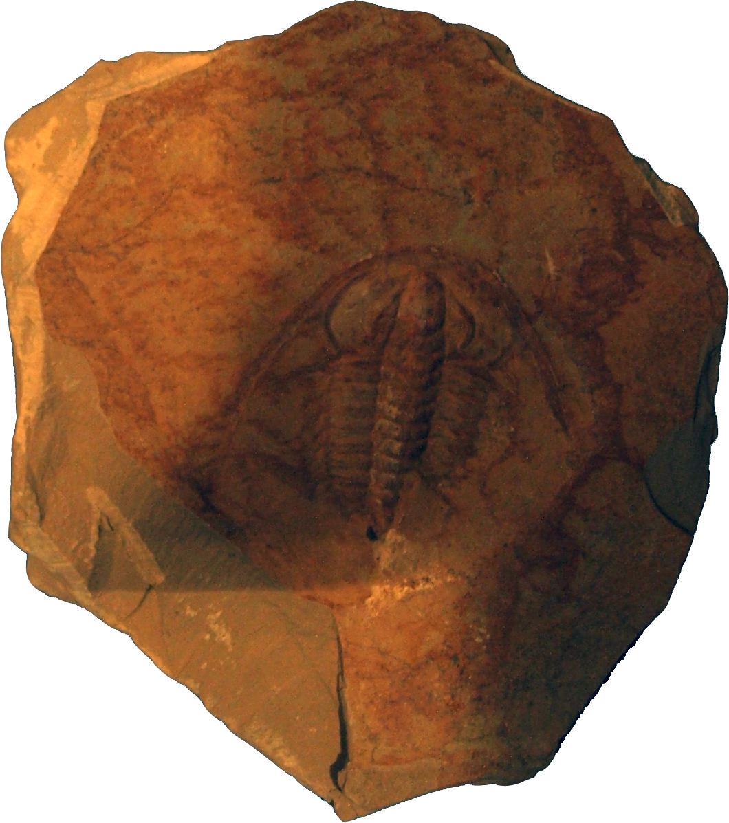 An example of Eoredlichia zhang on display at the Paleozoological Museum of China.